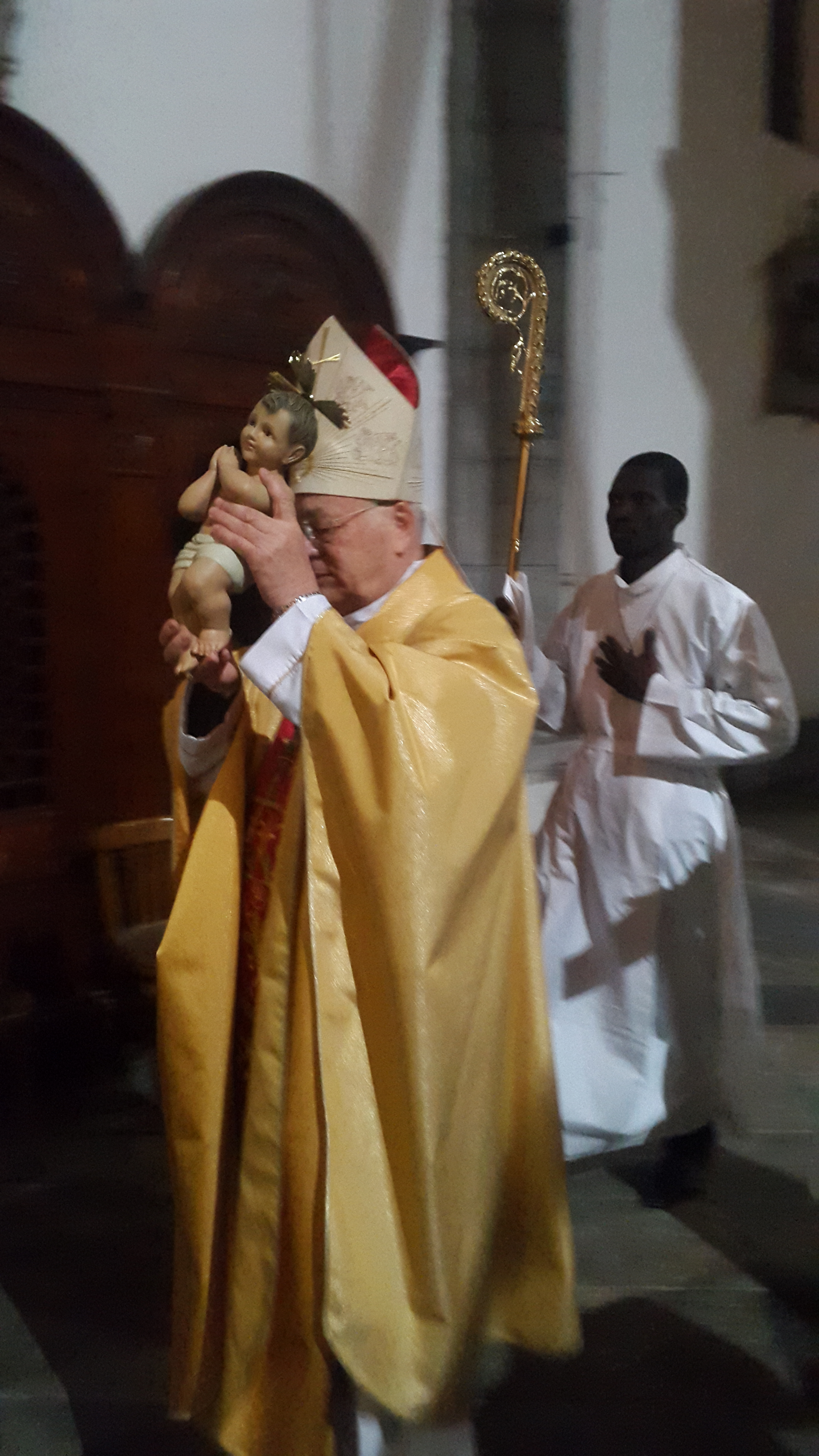 Christmas mass in Cathedral of St. Vincent de Paul in Tunis: baby jesus